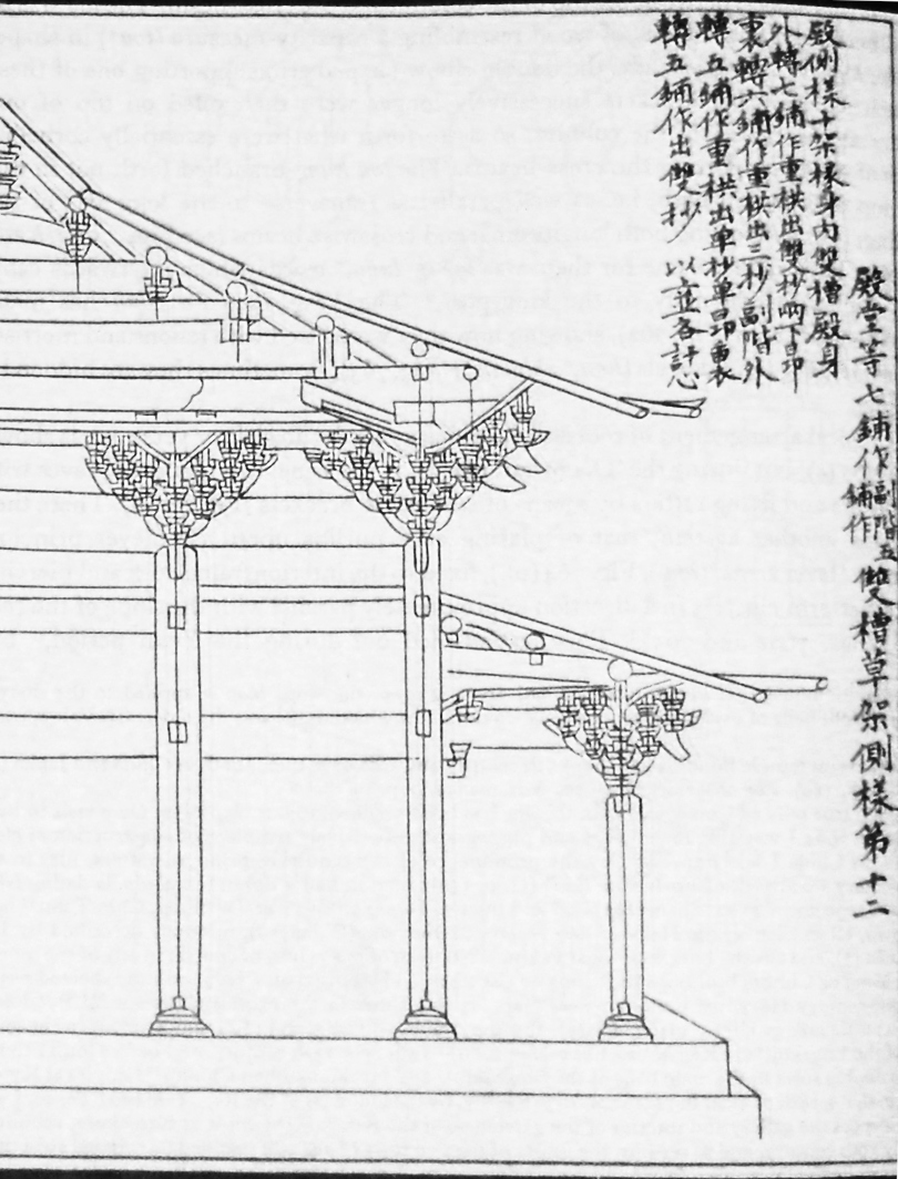 Smear removed from original by mixing channels: Red: 0.2 green + blue Green: 0.4 green + 0.65 blue Blue: blue as red is badly smeared, green is slightly smeared but has least noise, and blue is not smeared but has most noise.